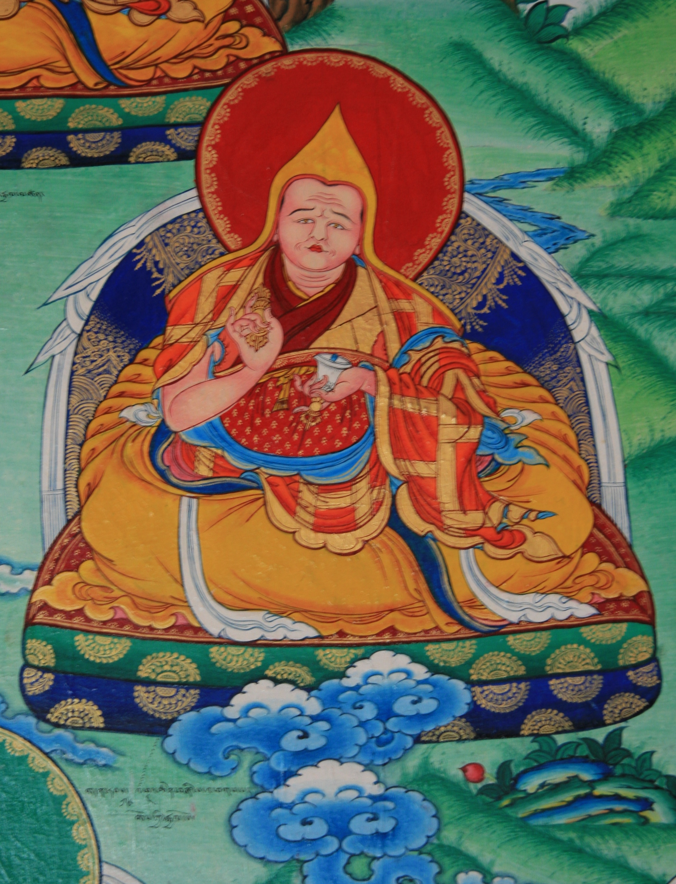 The Fourth Pakpa Lha, Chokyi Gyelpo b.1605 - d.1643